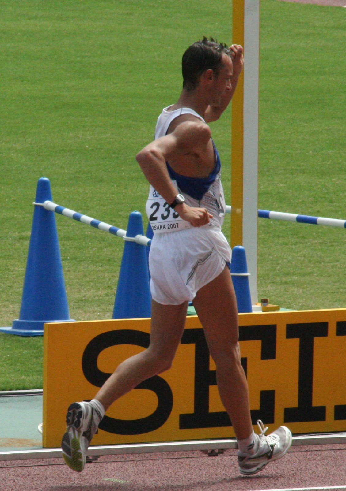 World Athletics Championships 2007 in Osaka - Walker Diego Cafagna near the finish line, probably with both feet in the air